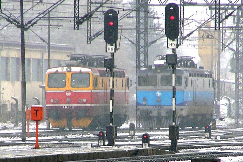 Hrvatske željeznice, 1142 series besides a 1141 series on a cloudy and snowy day